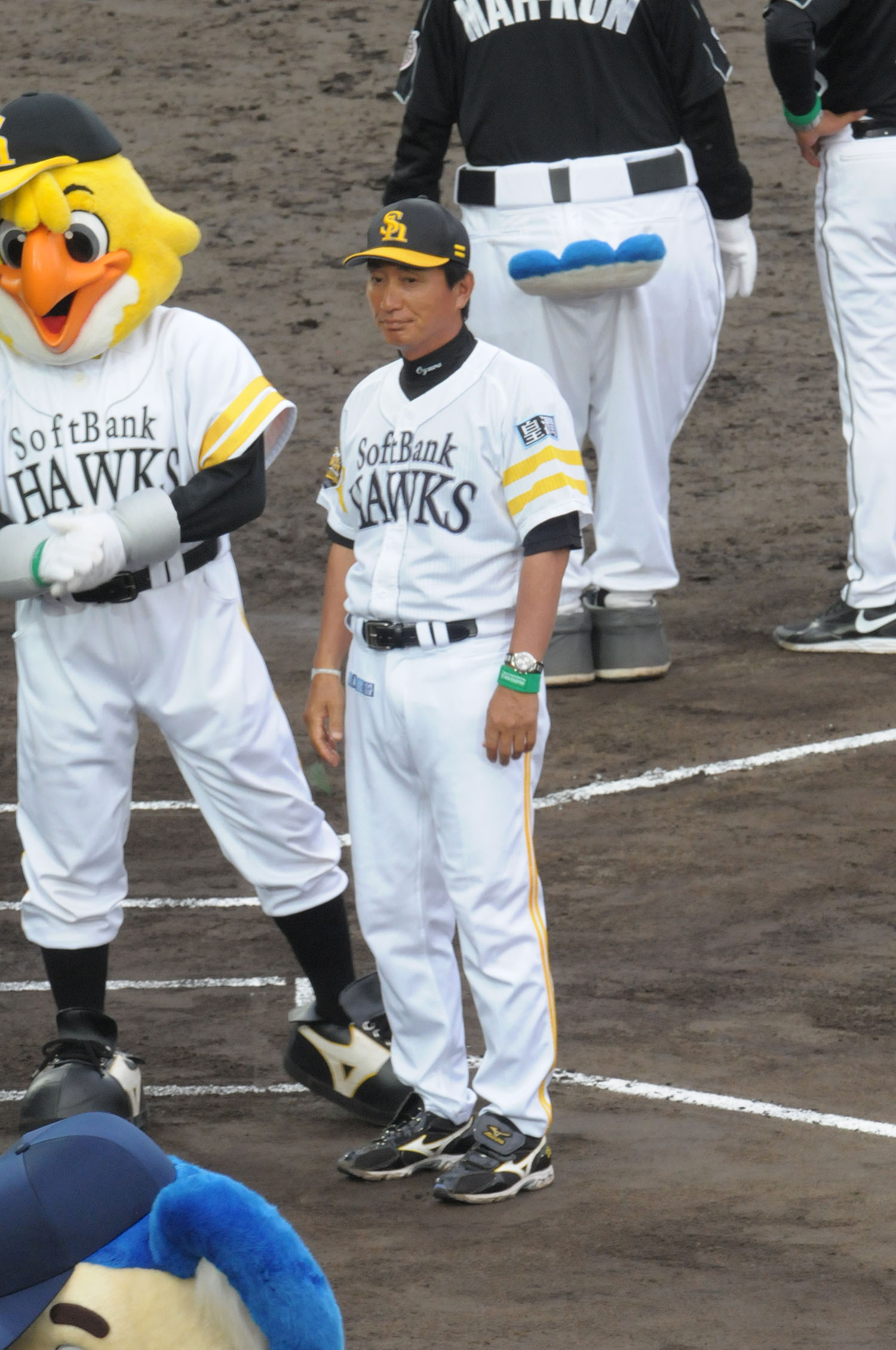 Kazuo Ogawa, manager of the Fukuoka SoftBank Hawks' farm team, at Akita Prefectural Baseball Stadium